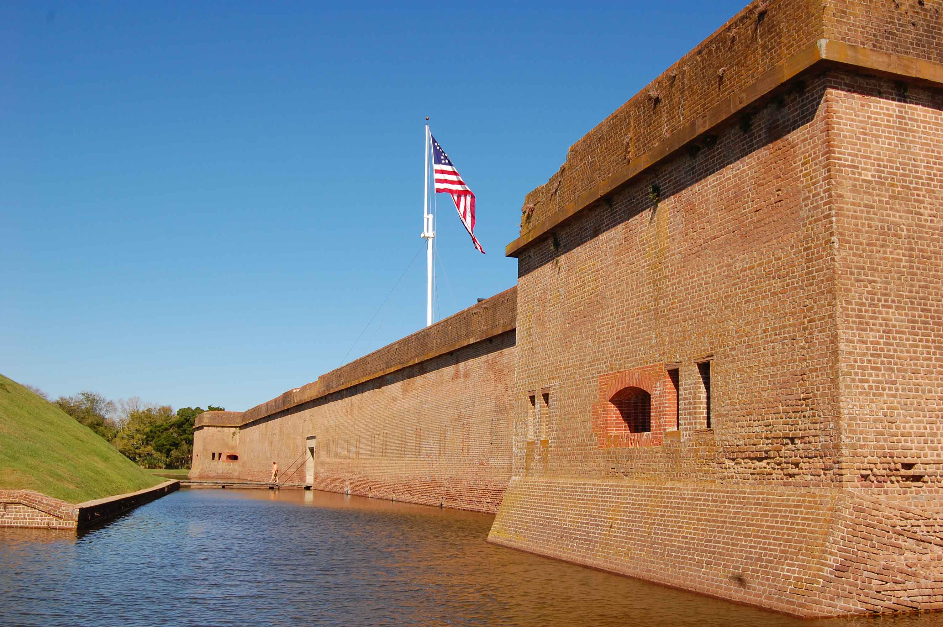 Front of Ft. Pulaski